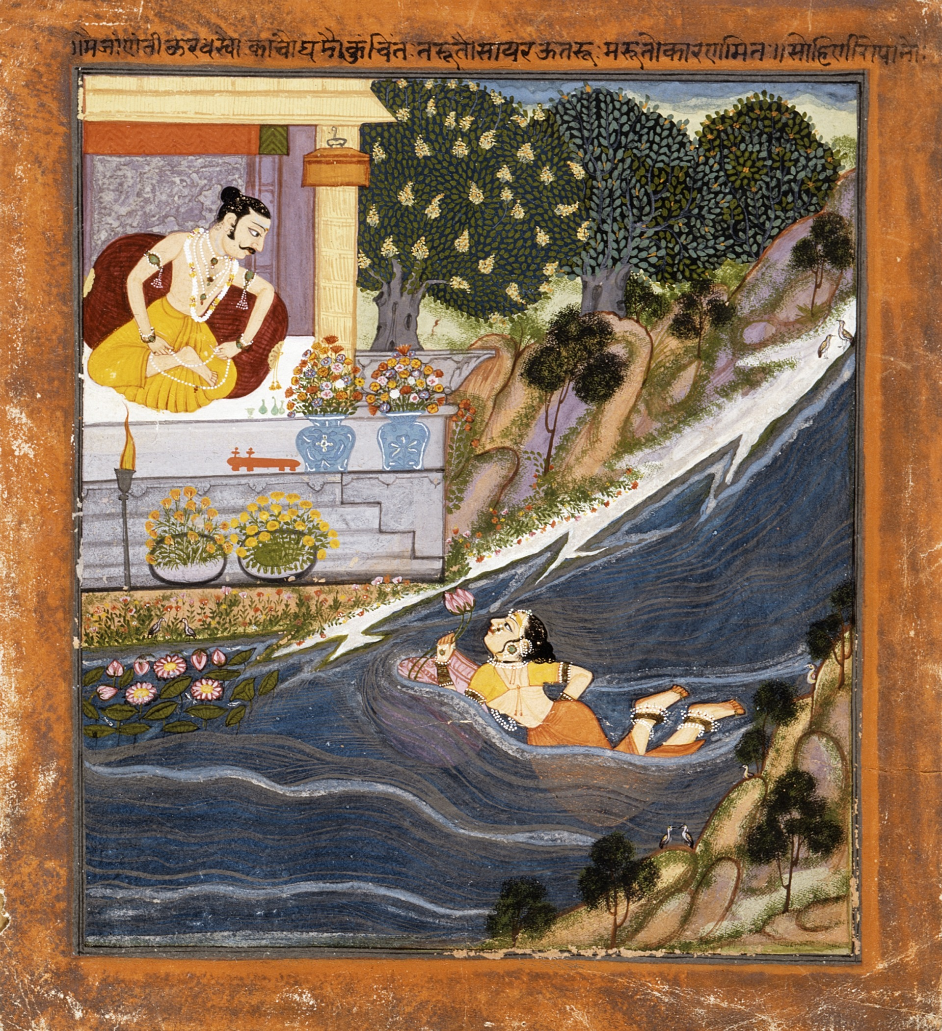 India, Rajasthan, Mewar, circa 1750-1775 Drawings; watercolors Opaque watercolor, silver, gold, and ink on paper Sheet: 9 7/8 x 8 7/8 in. (25.08 x 22.54 cm); Image: 8 1/4 x 7 1/4 in. (20.96 x 18.42 cm) Gift of Jane Greenough Green in memory of Edward Pelton Green (AC1999.127.3) South and Southeast Asian Art